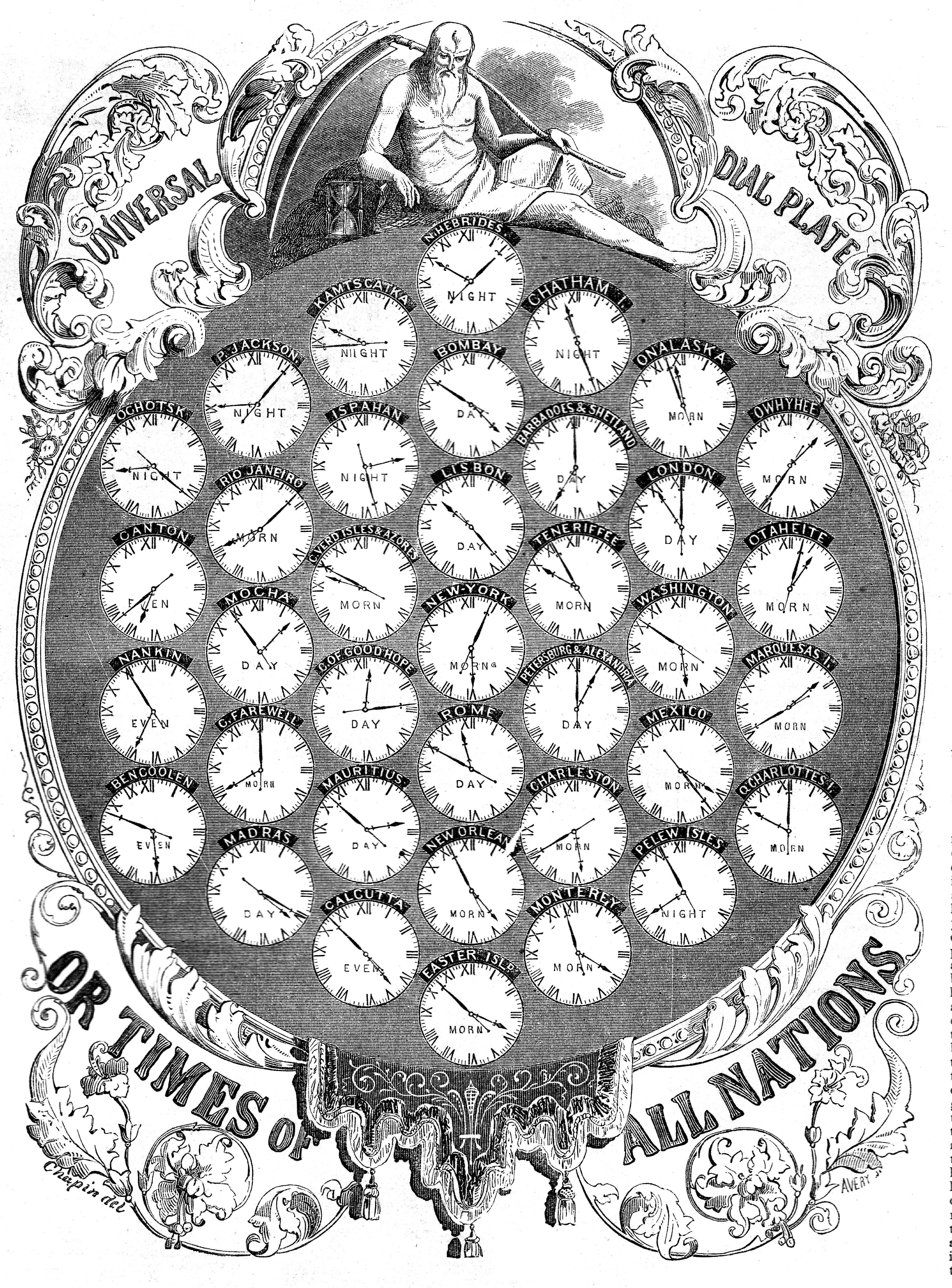 "Universal Dial Plate or Times of all Nations" 1853 (wood engraving)